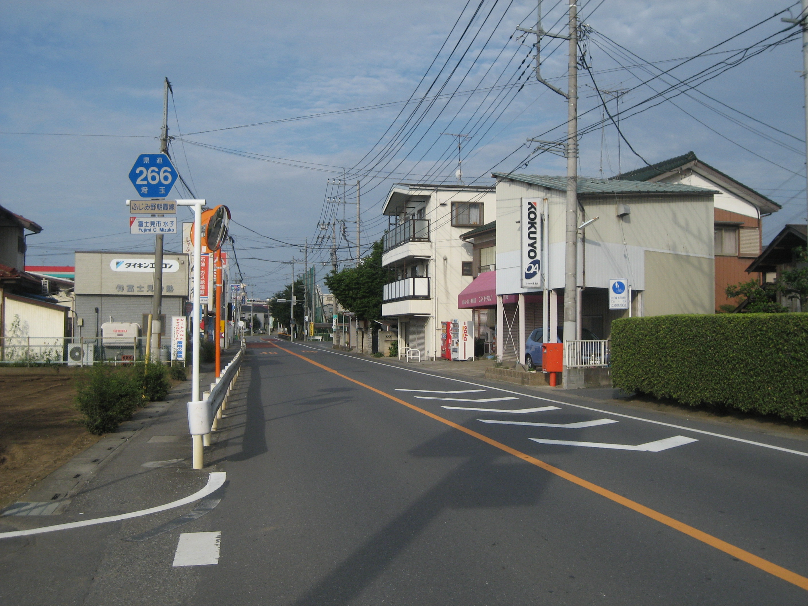 The Saitama Prefectural Road Route 266 in Fujimi City